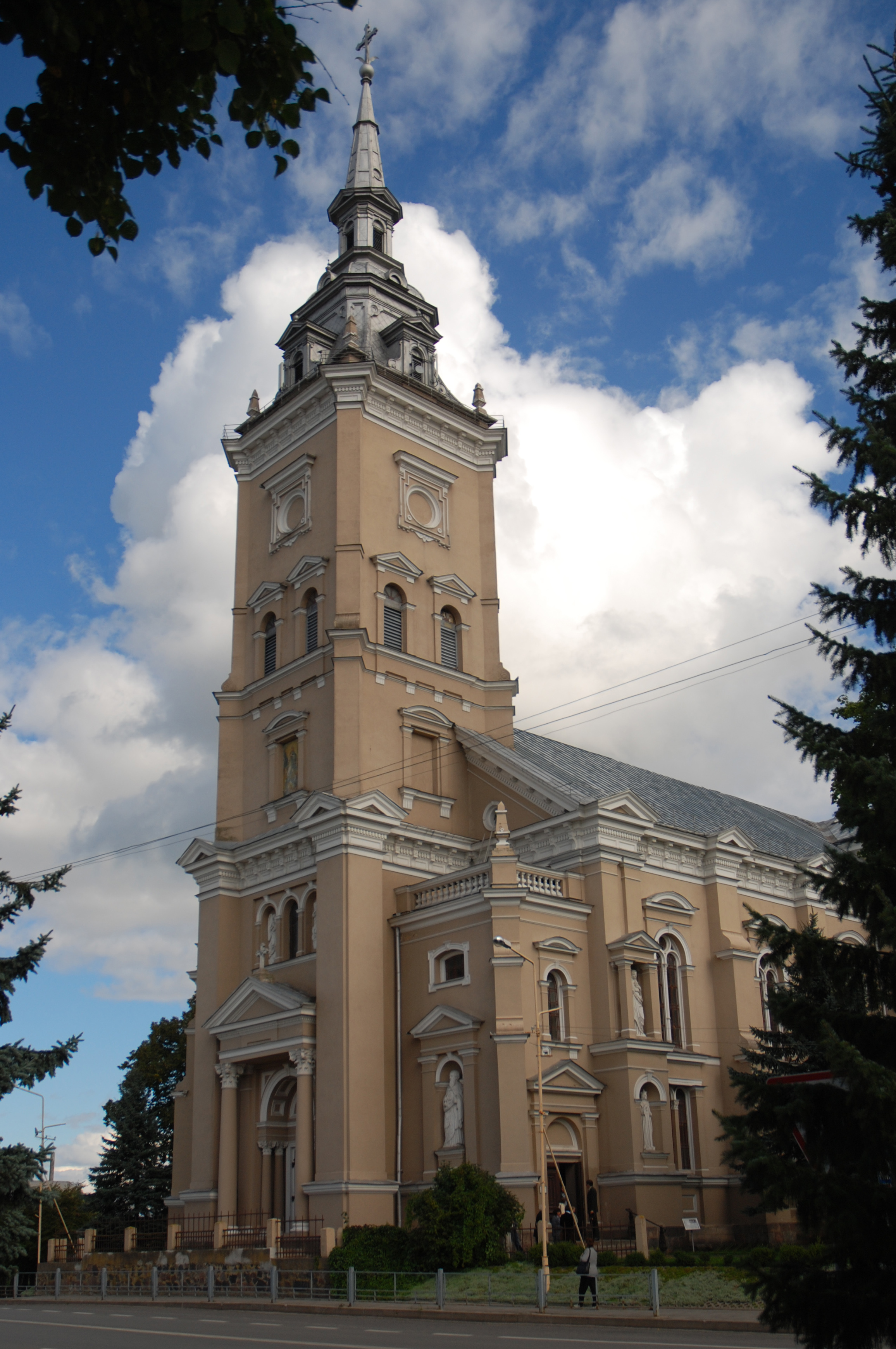 Church of the Assumption of the Virgin Mary, Joniškis